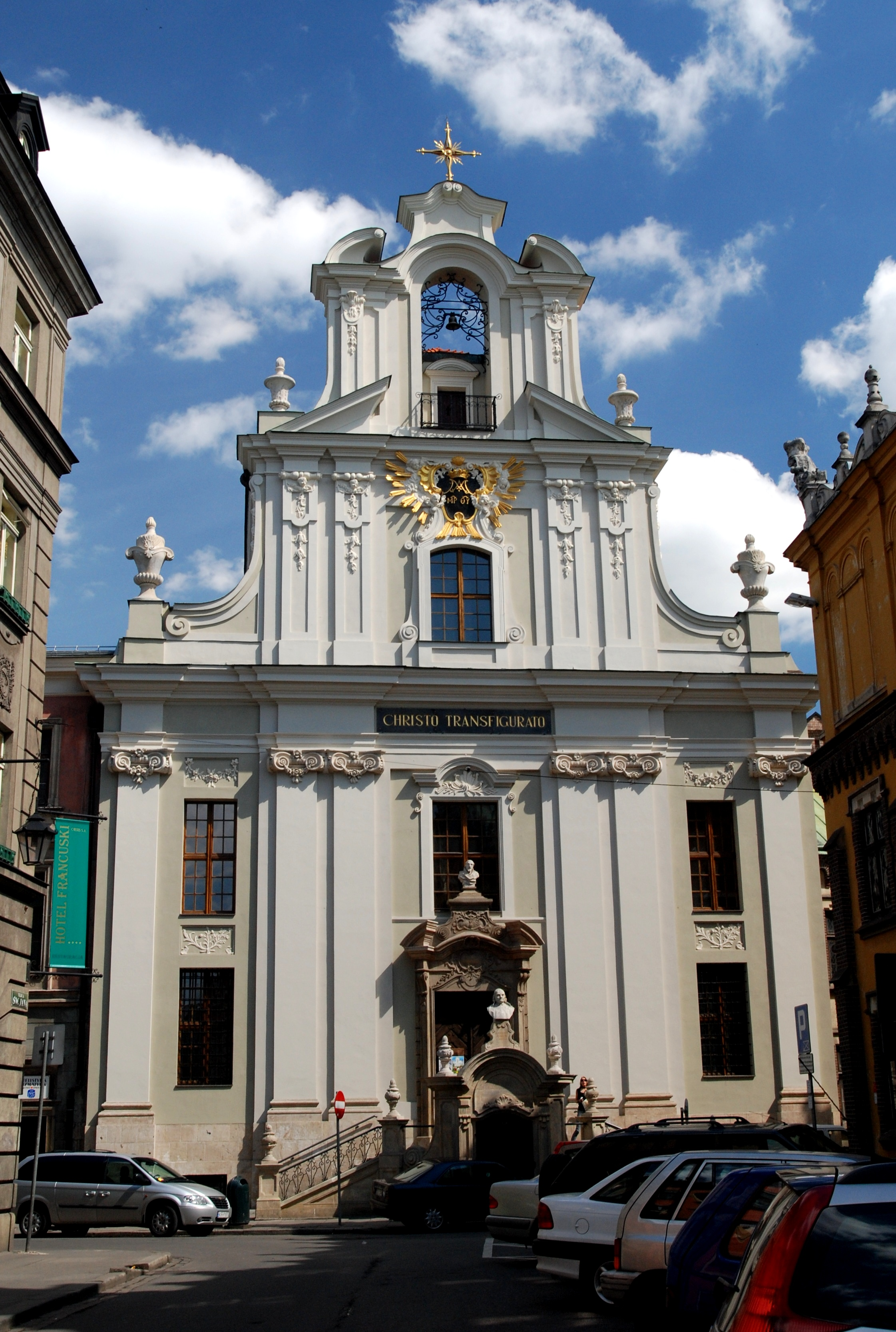 Church of Transfiguration in Kraków